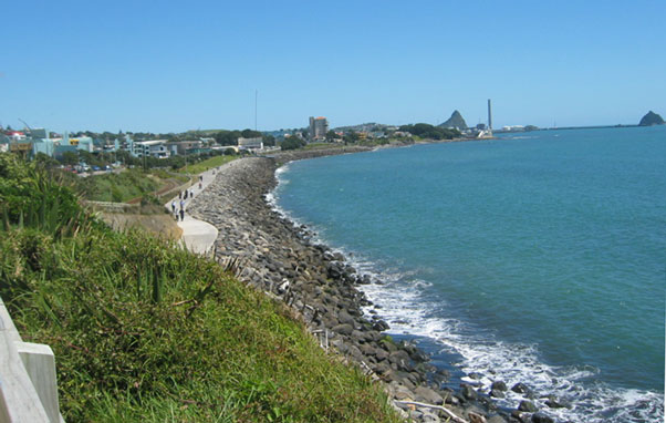 View of New Plymouth waterfront.